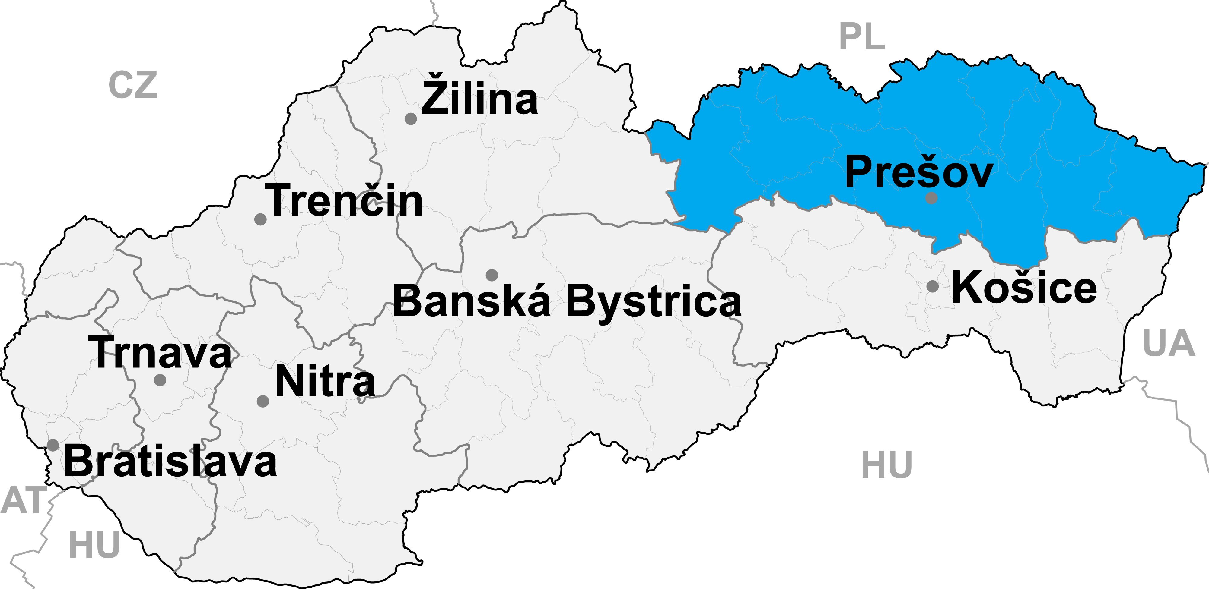 map of Slovakia, district (kraj) of Prešov highlighted